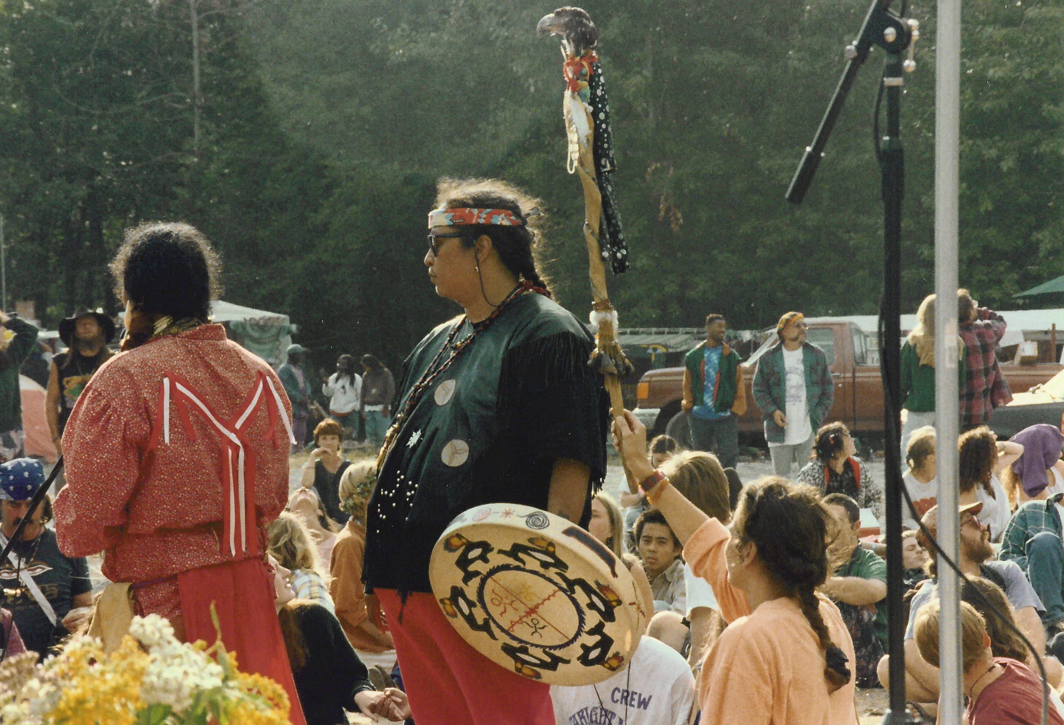 Shanawa Littlebow (Tigua Tribe, seen from back) and Beaver Chief (Lummi), Starlight Mountain Festival. Unidentified woman holds up medicine staff at right; at extreme left (kneeling) is activist and musician Percy Hilo.